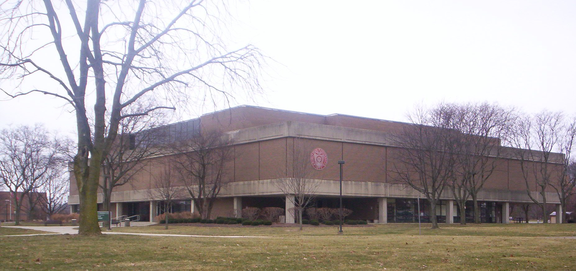 A view of Morrill Hall at The Ohio State University Marion Campus.